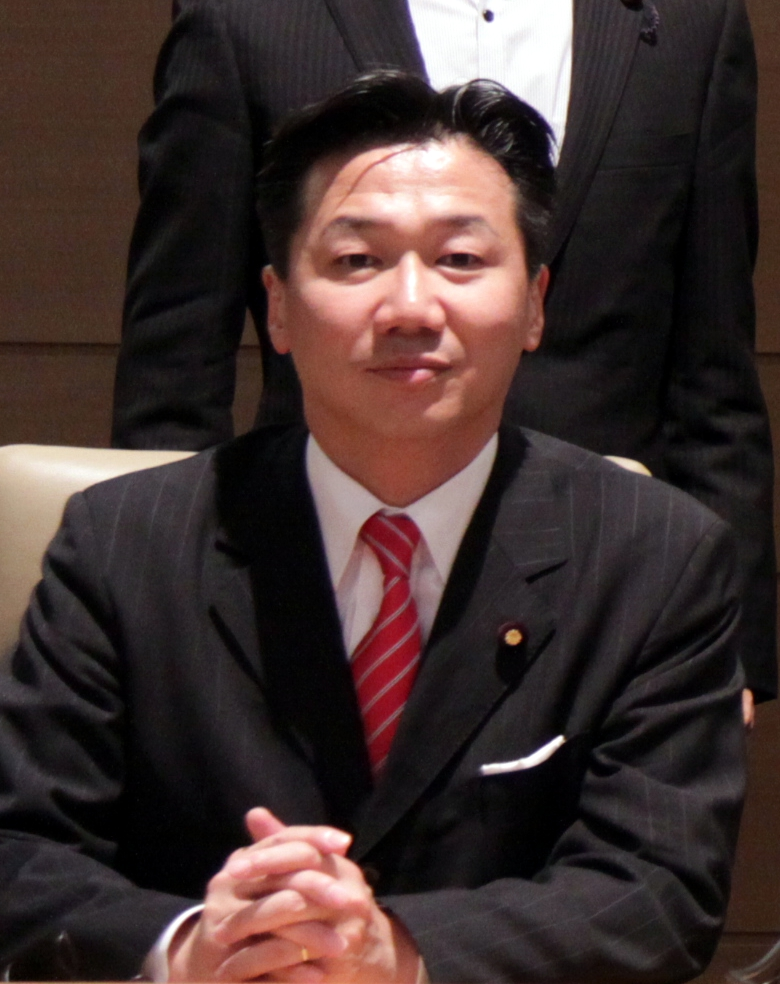 Edward Davey, Secretary of State for Energy and Climate Change, and Tim Hitchens, Ambassador to Japan, met members of the Global Legislators Organization for a Balanced Environment on May 30, 2013.